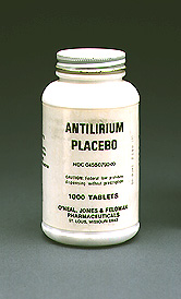 Prescription placebos used in research and practice